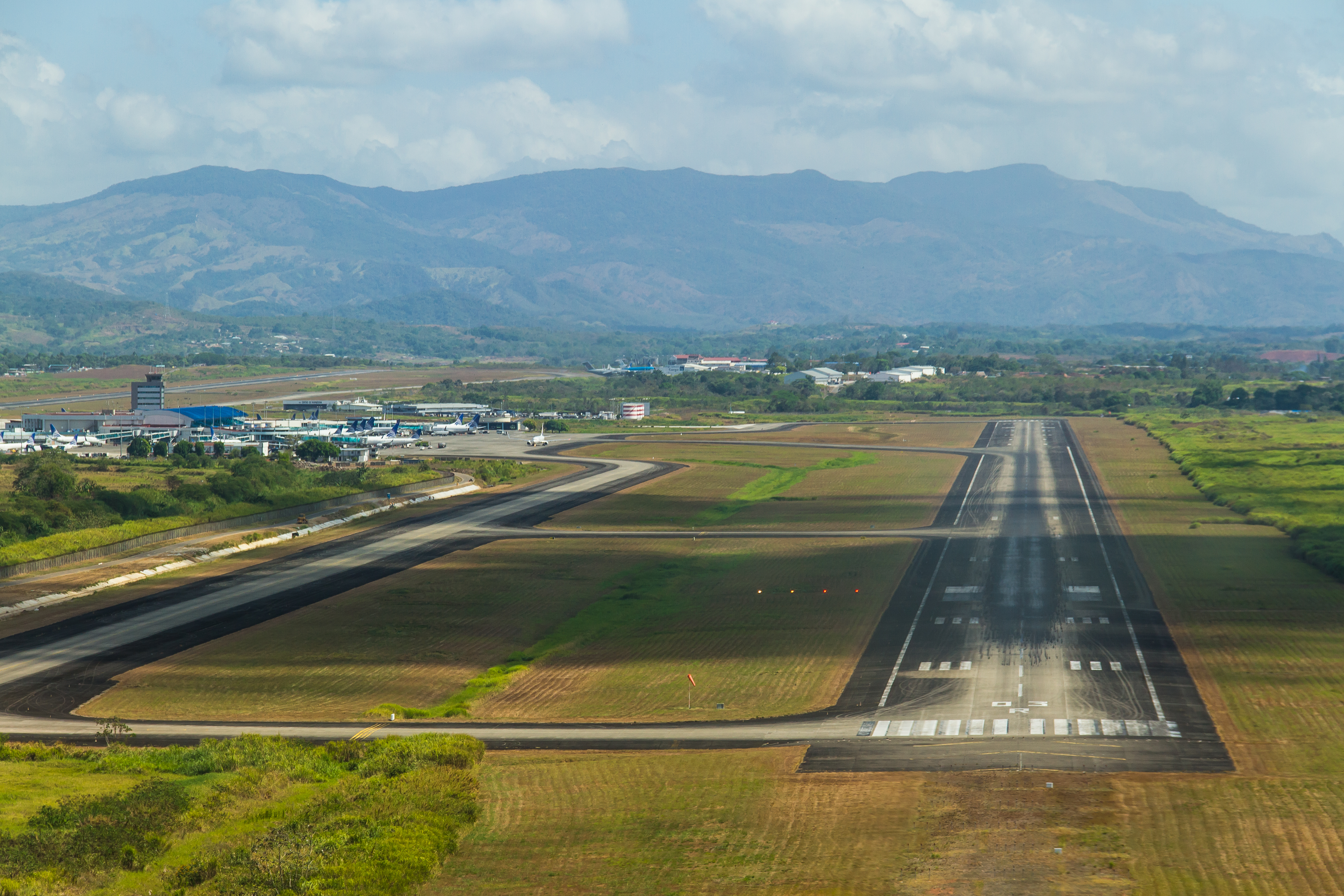 Tocumen Intl AIrport (Panama City)